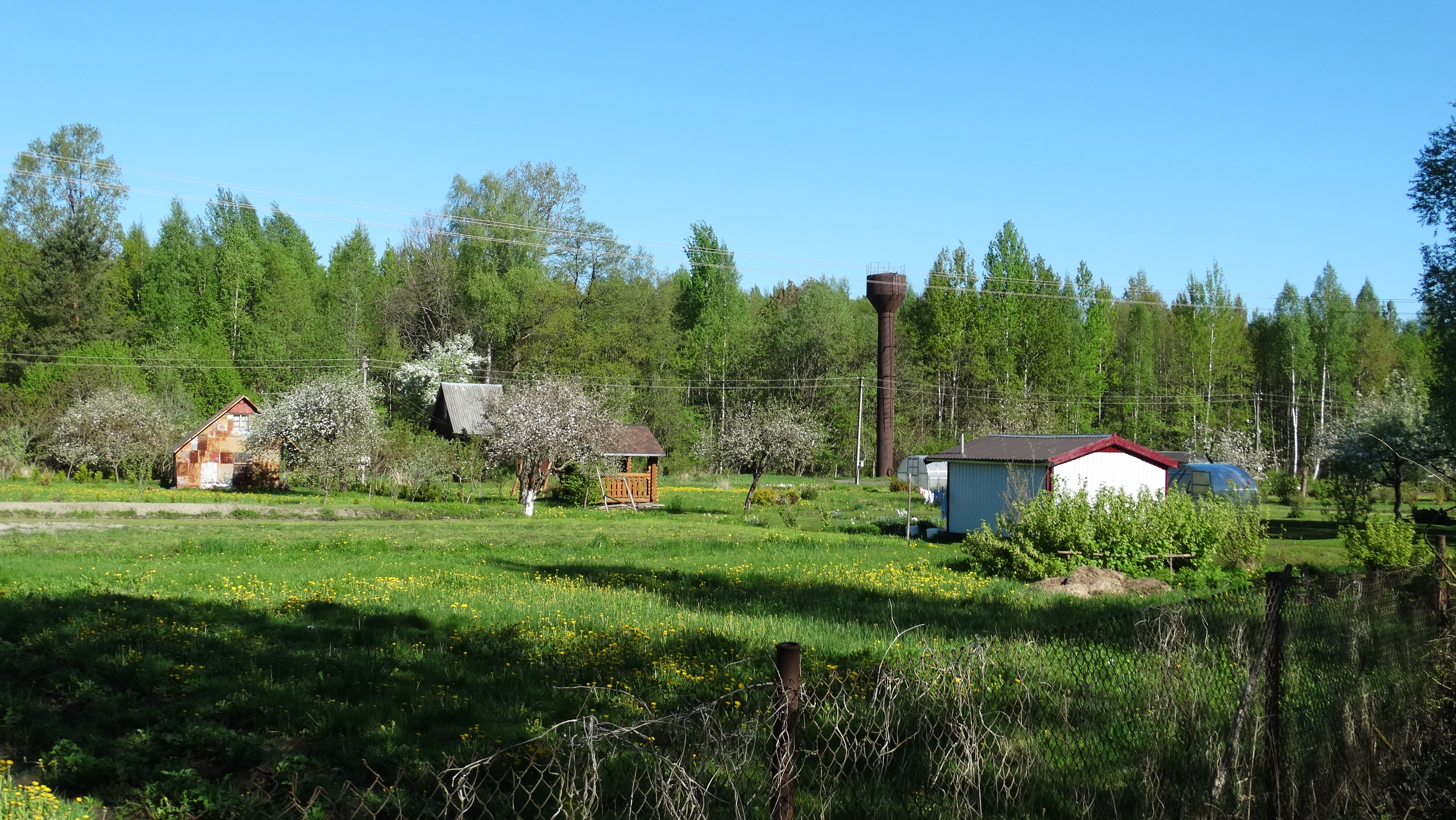 Papilvis, Kazlų Rūda municipality, Lithuania